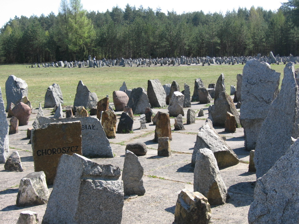 picture shot by myself while visiting warsaw/free for use - no copyrights